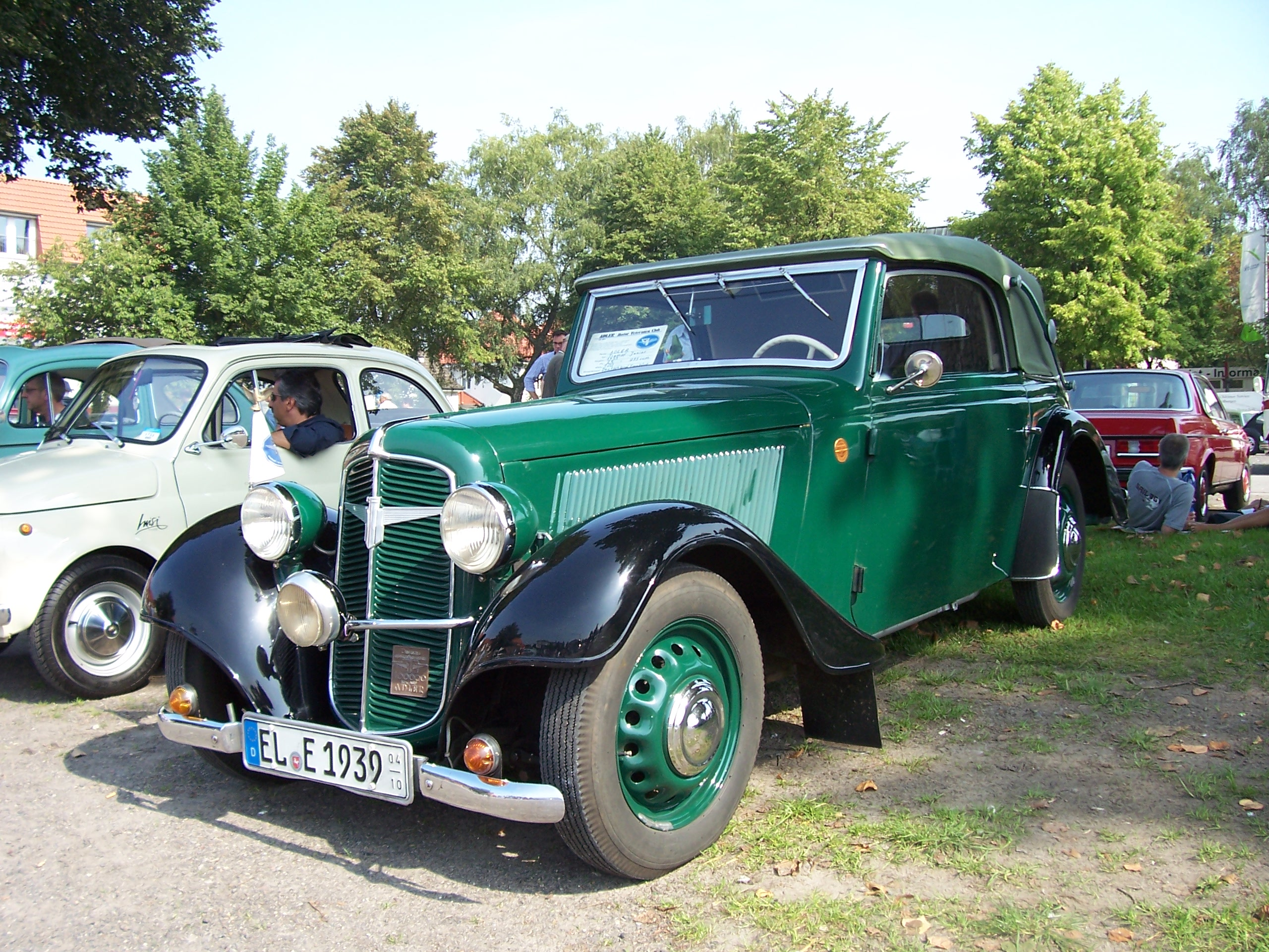 1939 Adler Trumpf Junior